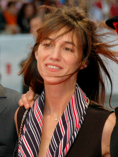 Charlotte Gainsbourg at Mostra 2007